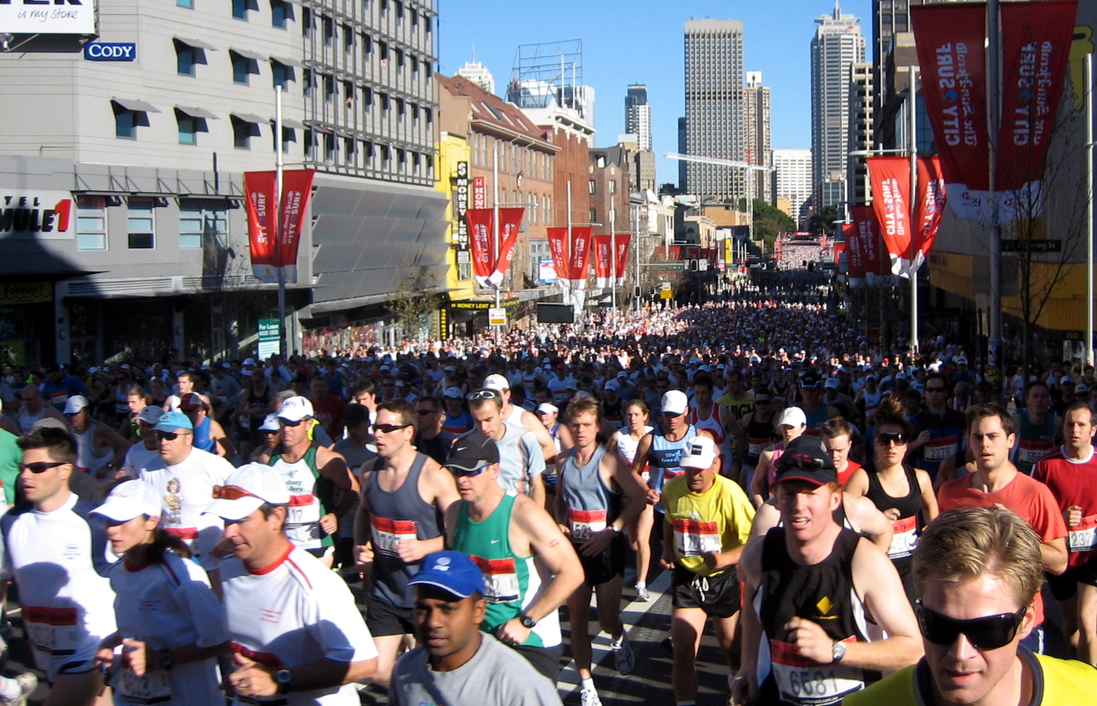 Runners in the 2007 City2Surf running up William Street, Sydney